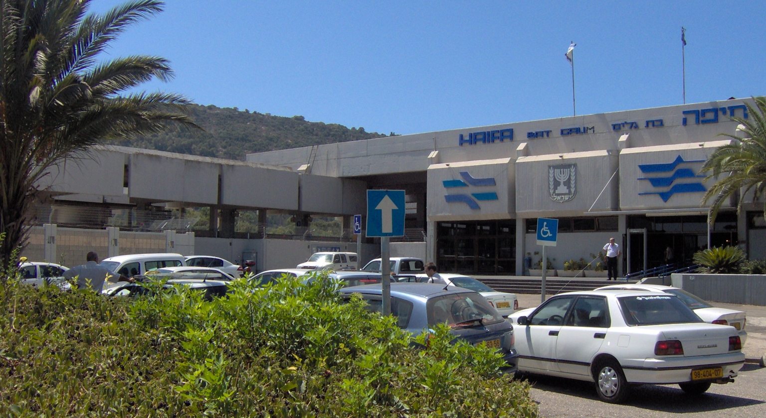 Bat Galim railways station in Haifa, Israel.